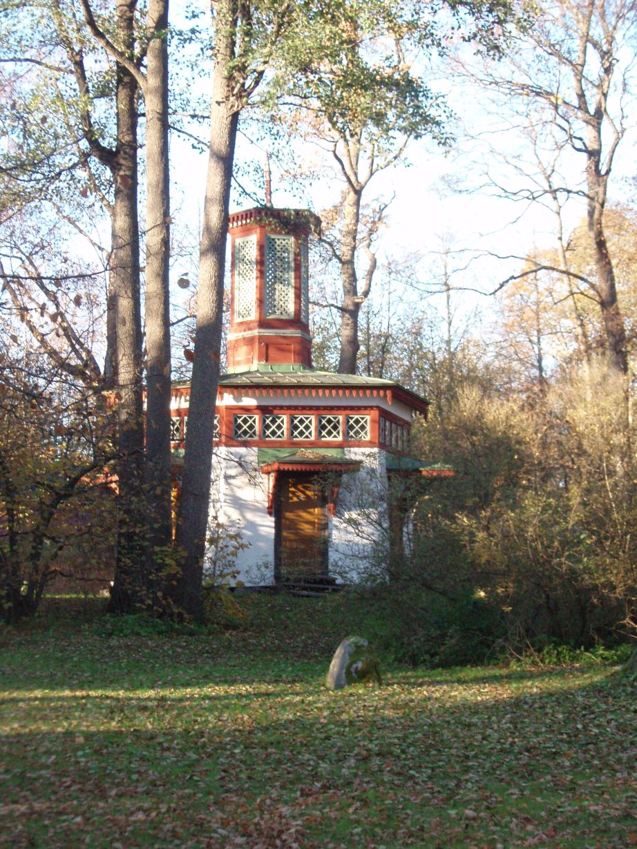 Place of accomodation erected for a visit by czar Alexander II of Russia at Träskända manor. Architect: G T von Chiewitz